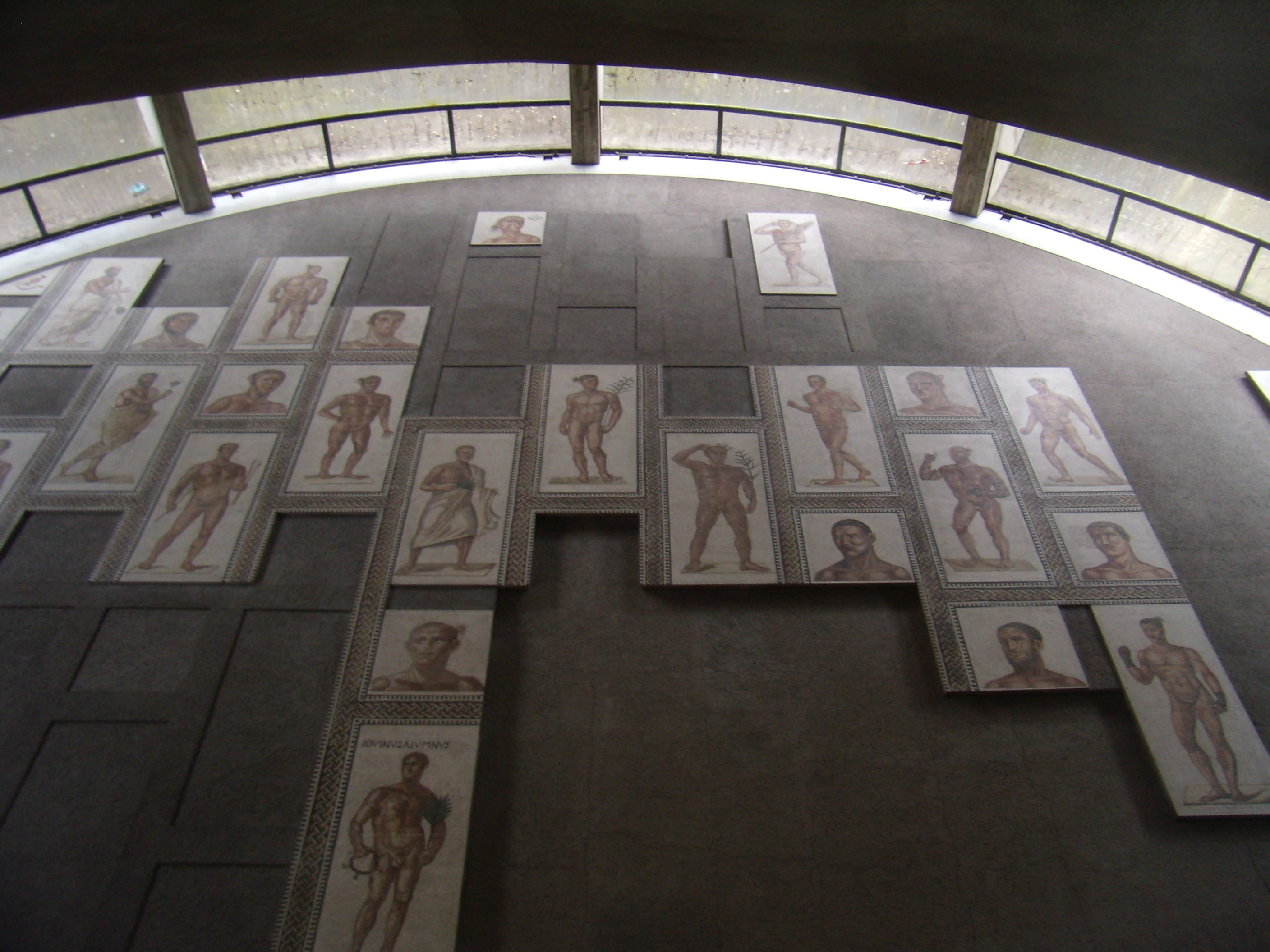 Mosaic from the Caracalla Thermes, now in the Vatican Museums